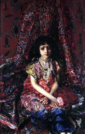 The Girl Against the Background of Persian Carpet